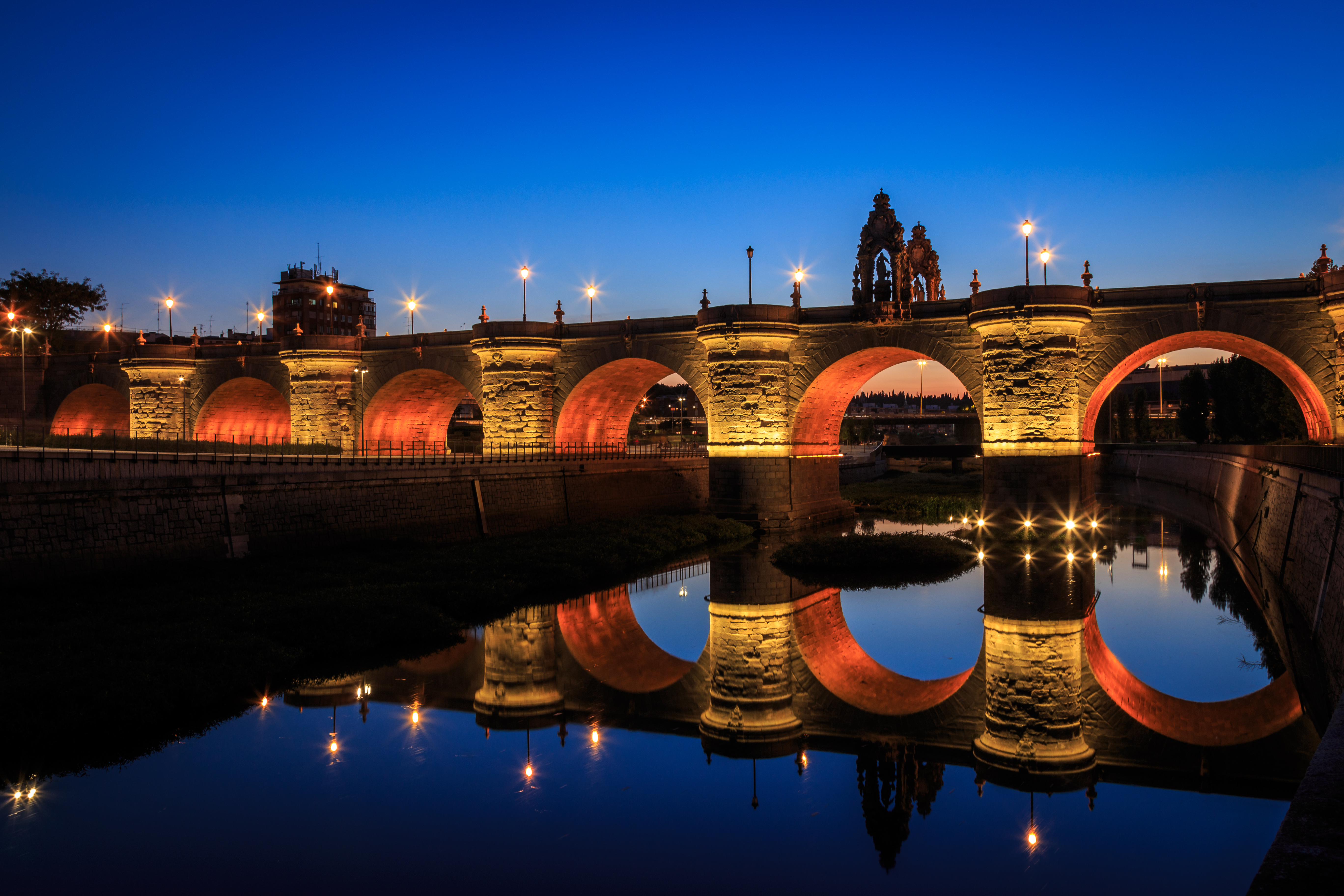 Toledo bridge at dusk, Madrid.